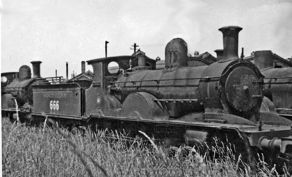 Ancient ex-LSWR 4-4-0 dumped at Eastleigh Locomotive Depot. Adams X6 class 4-4-0 No. 666 was built in 6/1892 and spent its youth on expreses from Waterloo, later on less demanding duties. In the end it was so worn out it had to be withdrawn in 6/43 at the height of World War Two when almost any locomotive that could turn a wheel was needed. Along with many other condemned engines, some of which had been there for years, I photographed it in July 1946 rusting away with weeds growing all round. A year or two later, these 'old crocks' were towed away to West Moors and eventually scrapped - at Eastleigh.